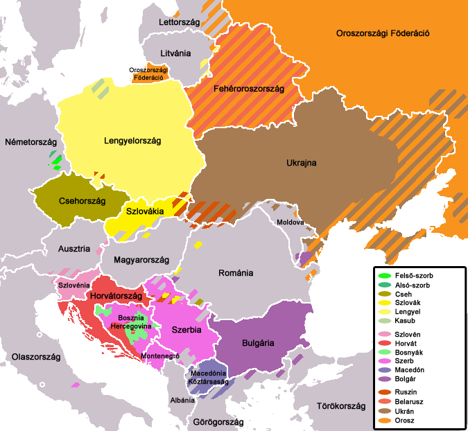 Map of Slavic languages in Hungarian.